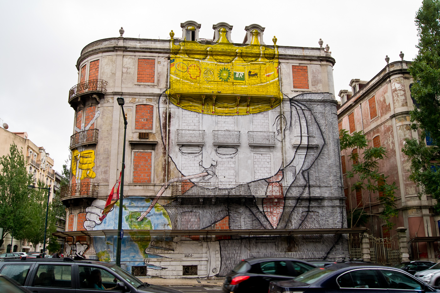 Proyecto Arte Urbana Crono Lisboa Blu cronolisboa.tk/